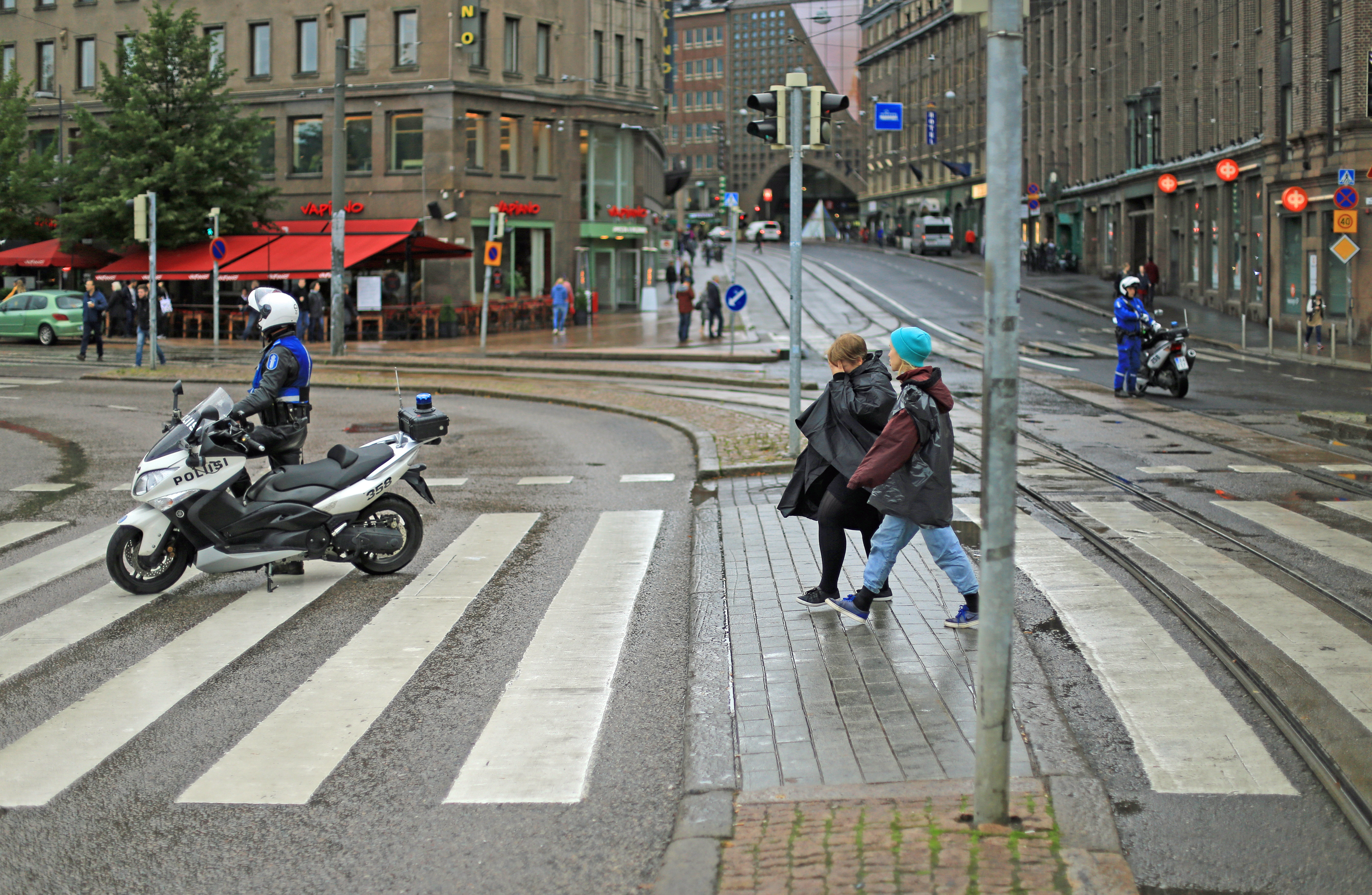 Scooter Police protecting people who are coming to Rautatientori during demonstrations in Helsinki on 18 September 2015.